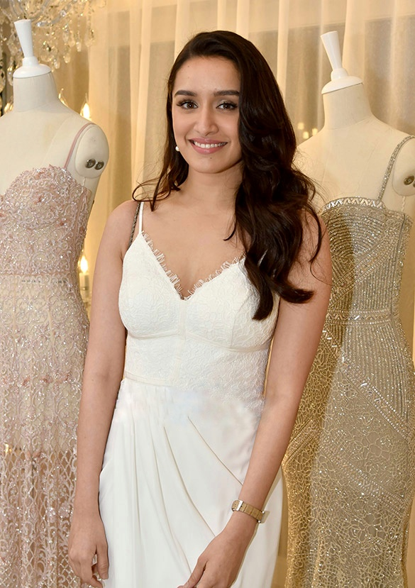 Shraddha Kapoor at a store launch in 2018